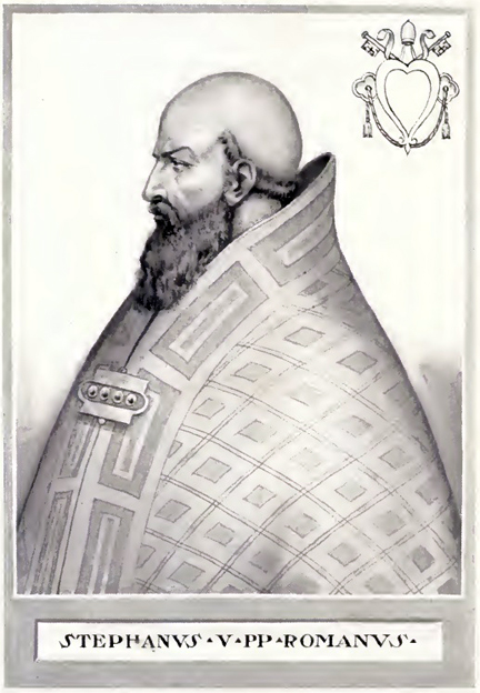 This illustration is from The Lives and Times of the Popes by Chevalier Artaud de Montor, New York: The Catholic Publication Society of America, 1911. It was originally published in 1842. Before Pope-elect Stephen was removed from most lists of popes, Stephen IV was referred to as Stephen V.